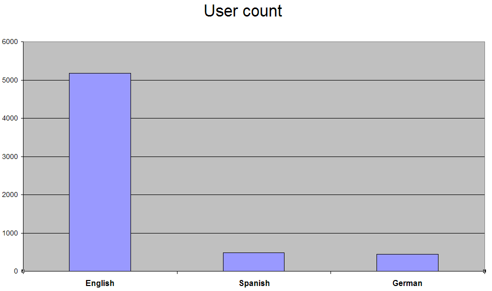 Comparison of the three biggest Wikipedia (by number of user accounts)